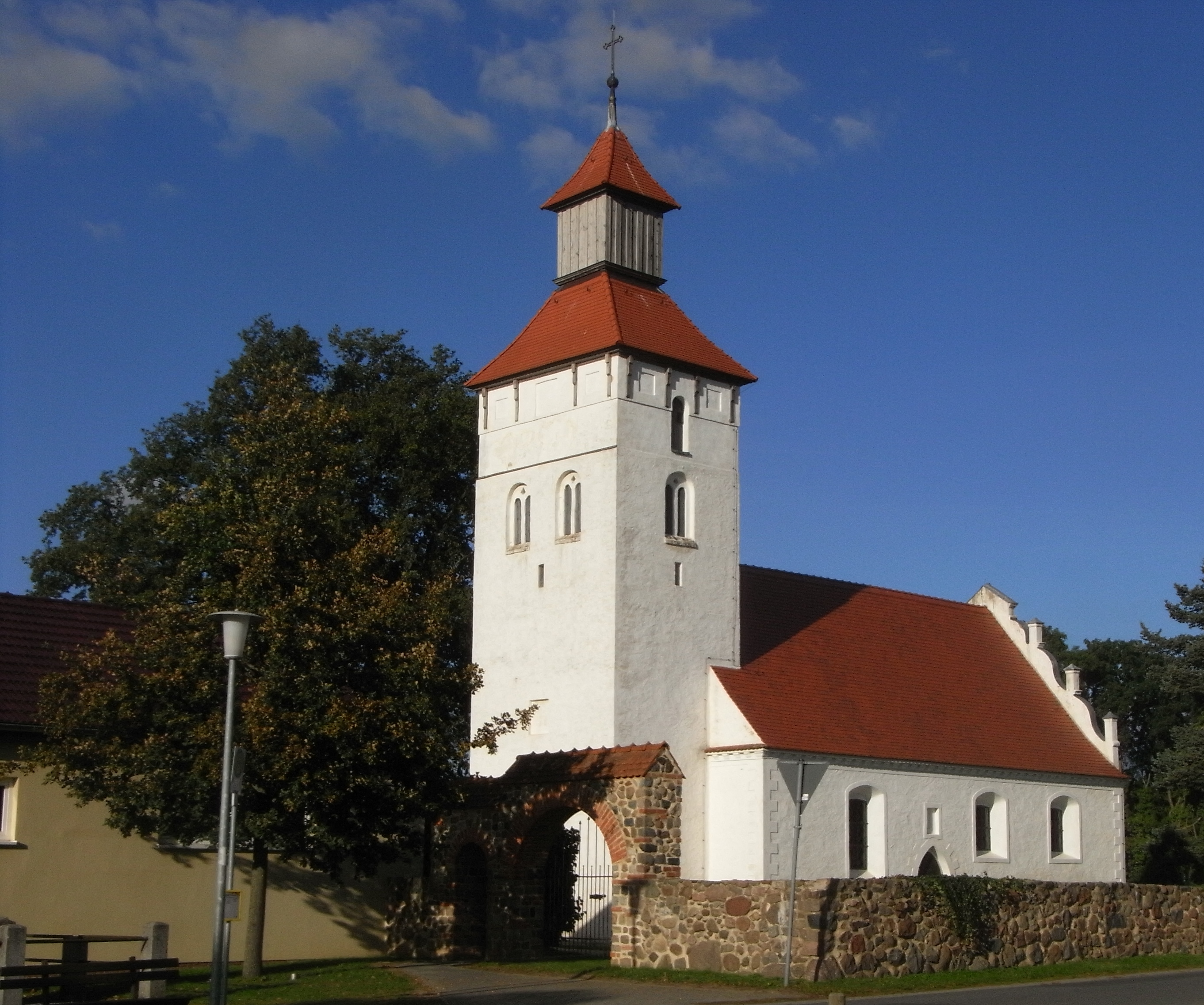 South-western view of church in Sonnenberg municipality, Oberhavel district, Brandenburg state, Germany